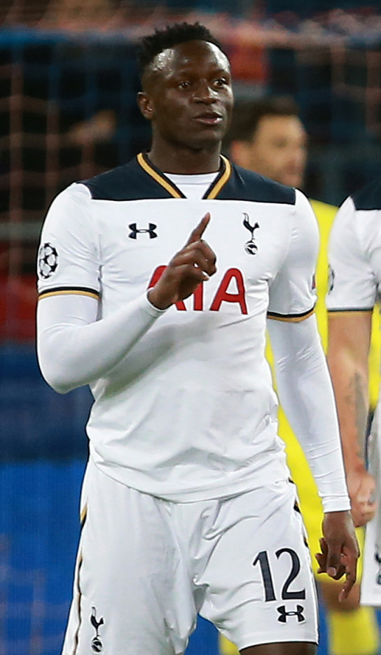 Victor Wanyama